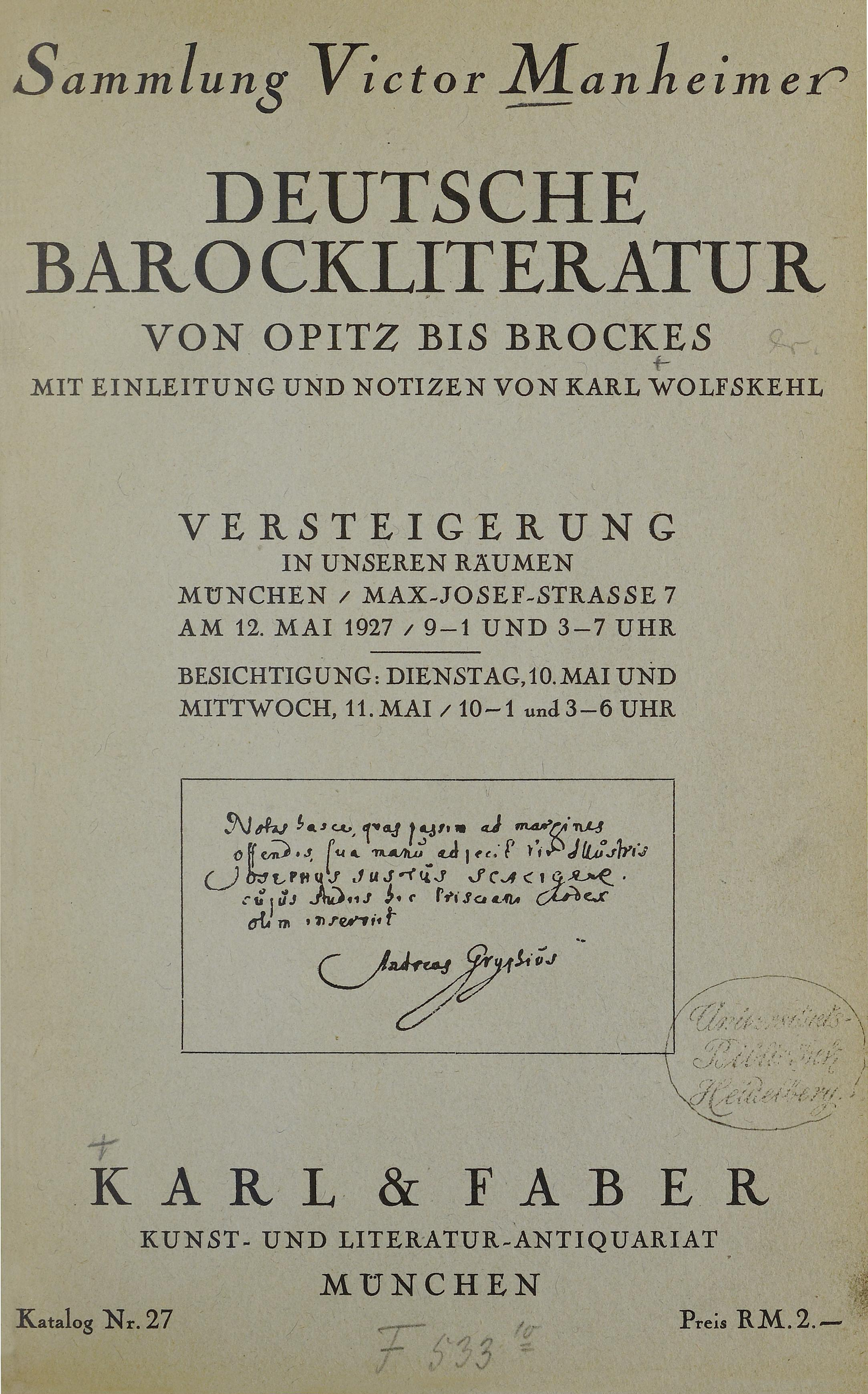 Auction of Victor Manheimer's baroque books